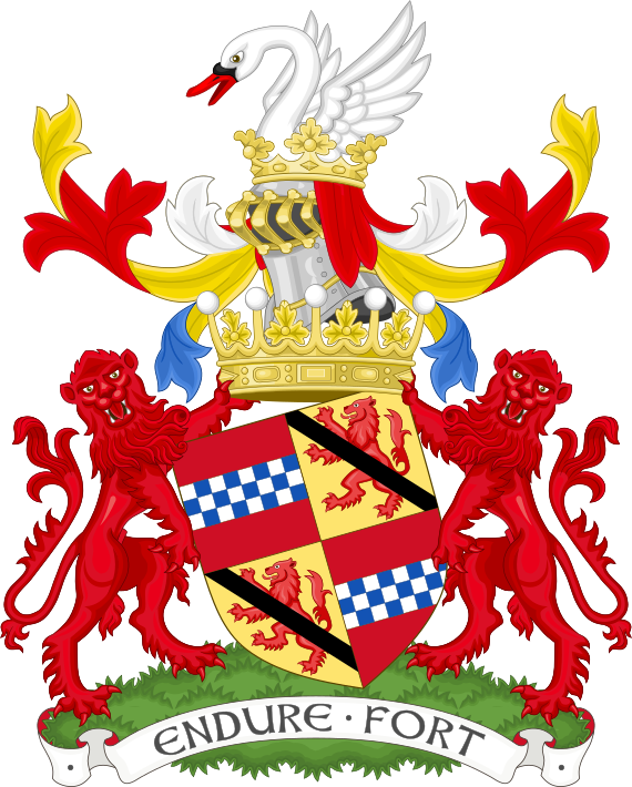 Coat of arms of the earl of Crawford - Premier earl of Scotland Arms. Quarterly: 1st and 3th, Gules a Fess checky Argent and Azure (Lindsay); 2nd and 3rd, Or a Lion rampant Gules debruised of a Riband in bend Sable (Abernethy). Crest. Out of an Antique Ducal Coronet a Swan's Neck and wings proper. Supporters. On either side a Lion guardant Gules. Motto. Endure Fort (Suffer bravely). Cracroft's Peerage